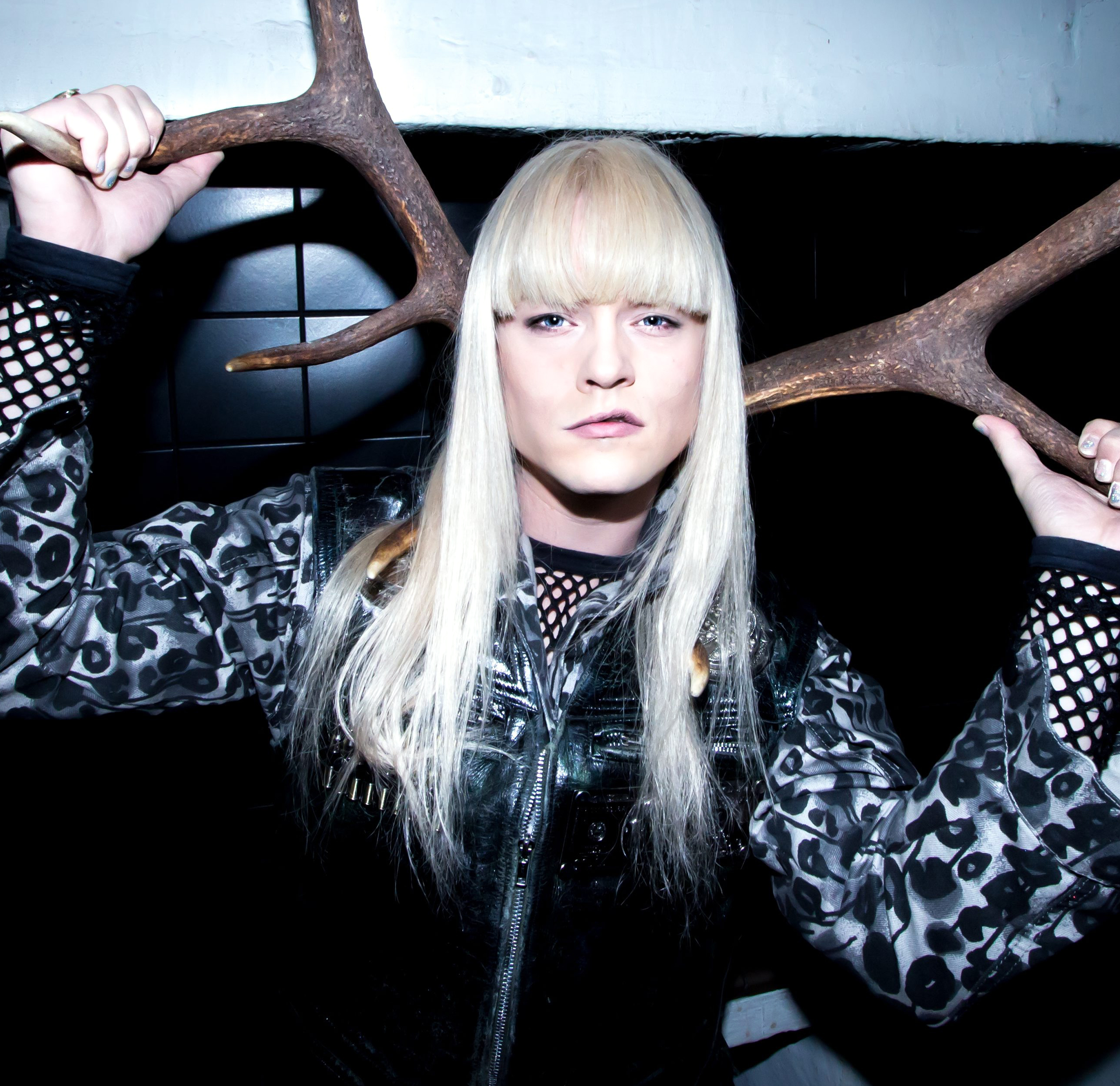 Glamboy P in February 2014, photographed by Martin Dan OlsenDansk: Glamboy P i februar 2014, fotografet af Martin Dan Olsen